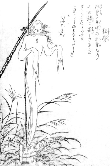 Kyōkotsu (狂骨, the ghost of a corpse discarded in a well) from the Konjaku Hyakki Shūi (今昔百鬼拾遺)